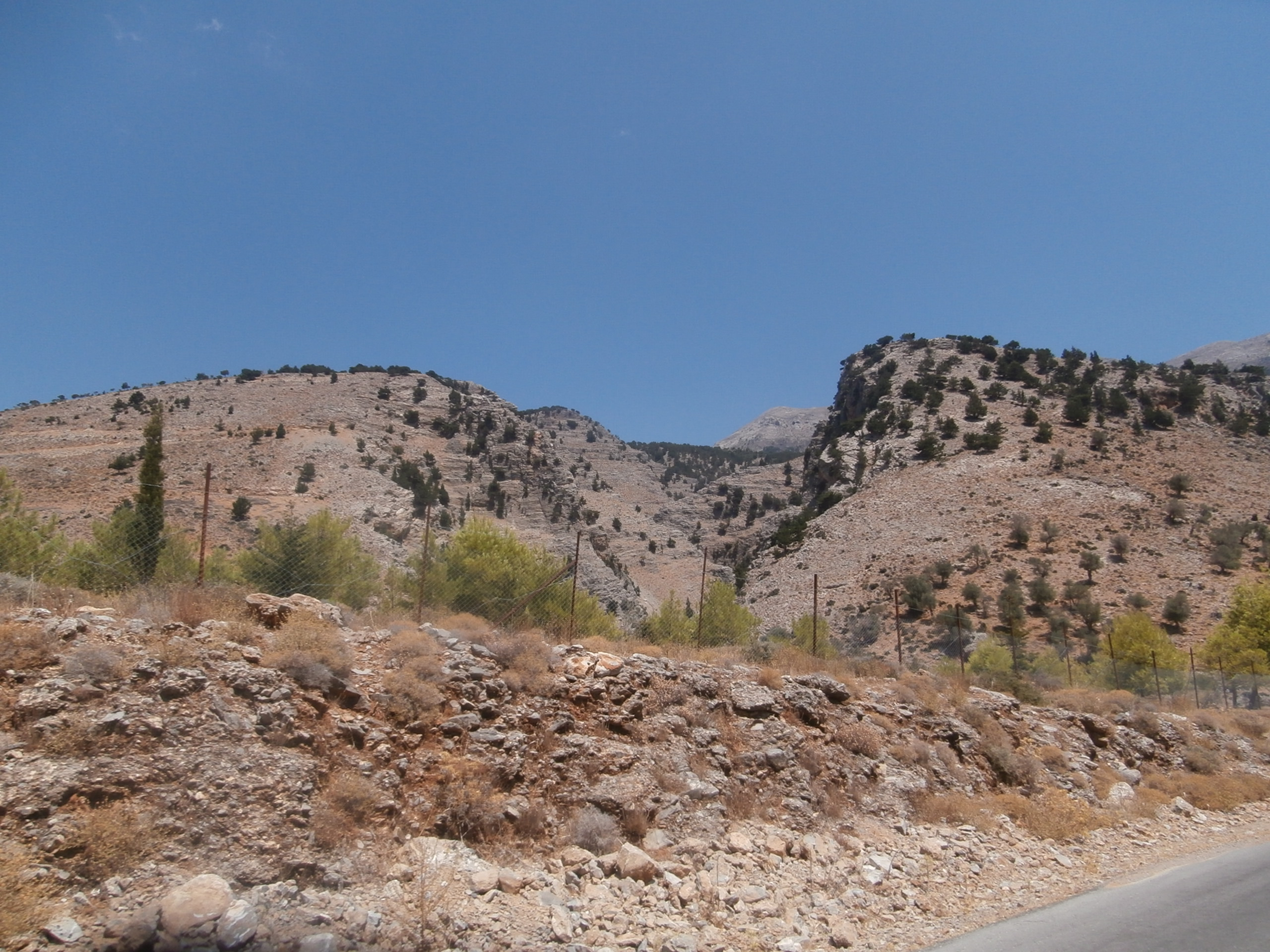 Voriziano gorge as seen from the road, near Vorizia